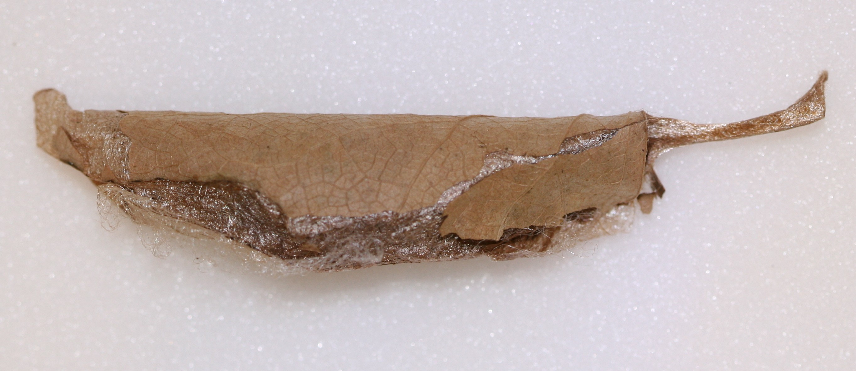 Promethea Moth cocoon, Callosamia promethea